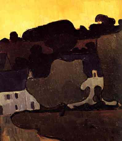 Picture: "Paysage Breton" by Mogens Ballin